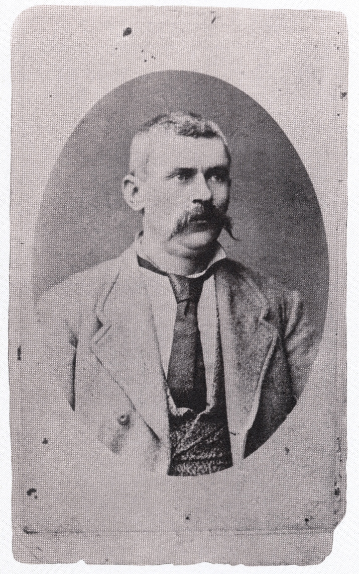 Hristo Ivanov - Golemia (The big one), close friend and comrade of Vasil Levski